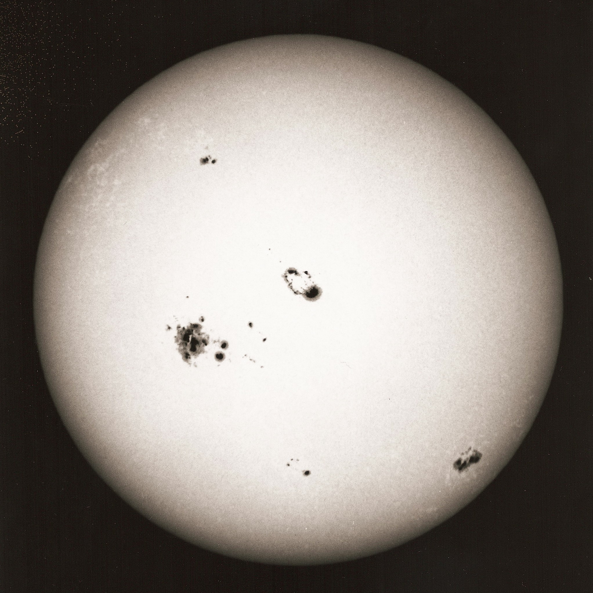 Sun with sunspots, analogphotography with a 4" Maksutov telescope and foil-filter ND 4